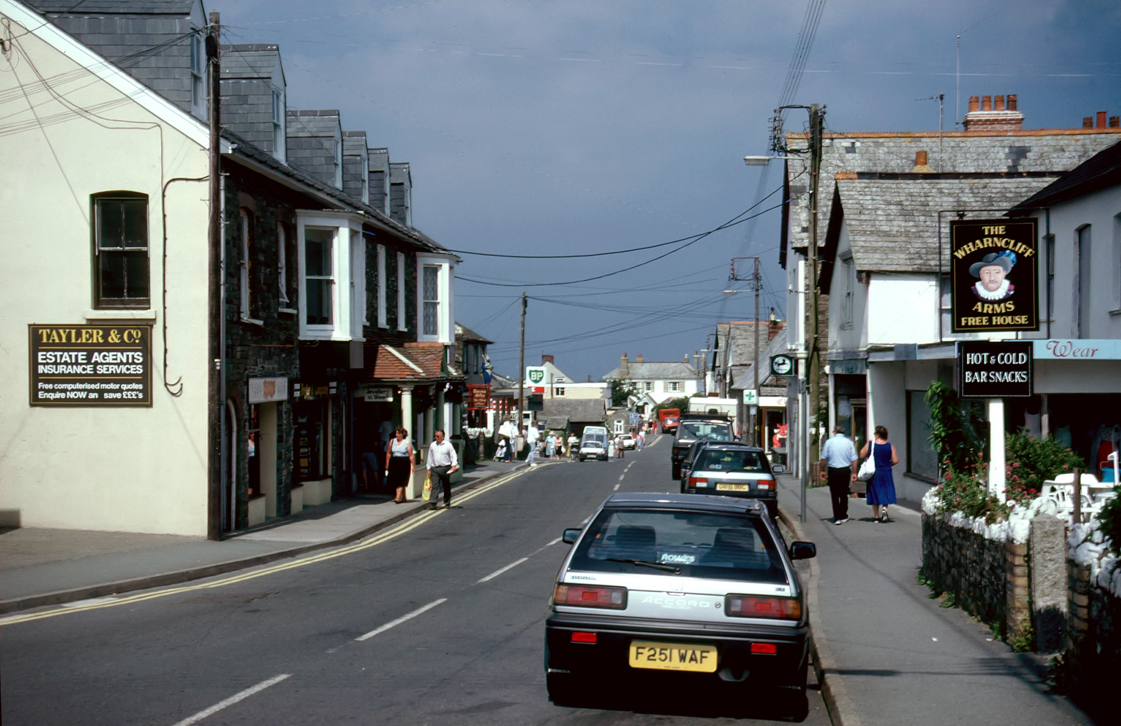 Village of Tintagel, Cornwall/UK; main street